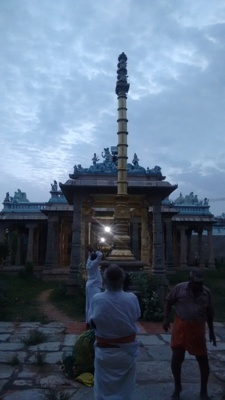 Andarkovil sornapurisvarartemple ஆண்டார்கோயில்சொர்ணபுரீஸ்வரர்கோயில்